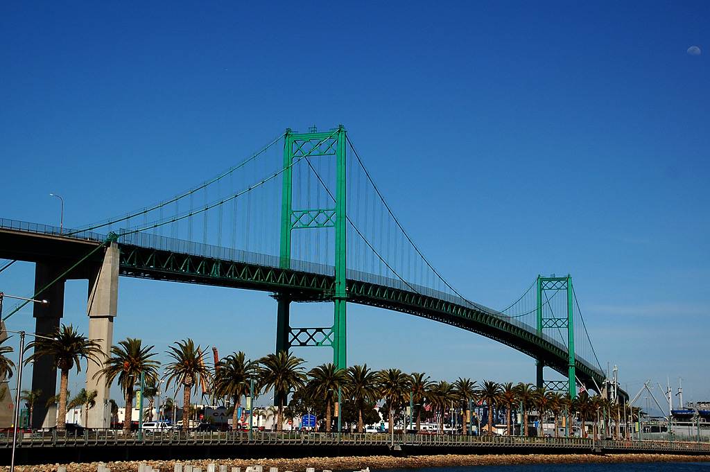 A view of the Vincent Thomas Bridge, a suspension span connecting San Pedro and Terminal Island.